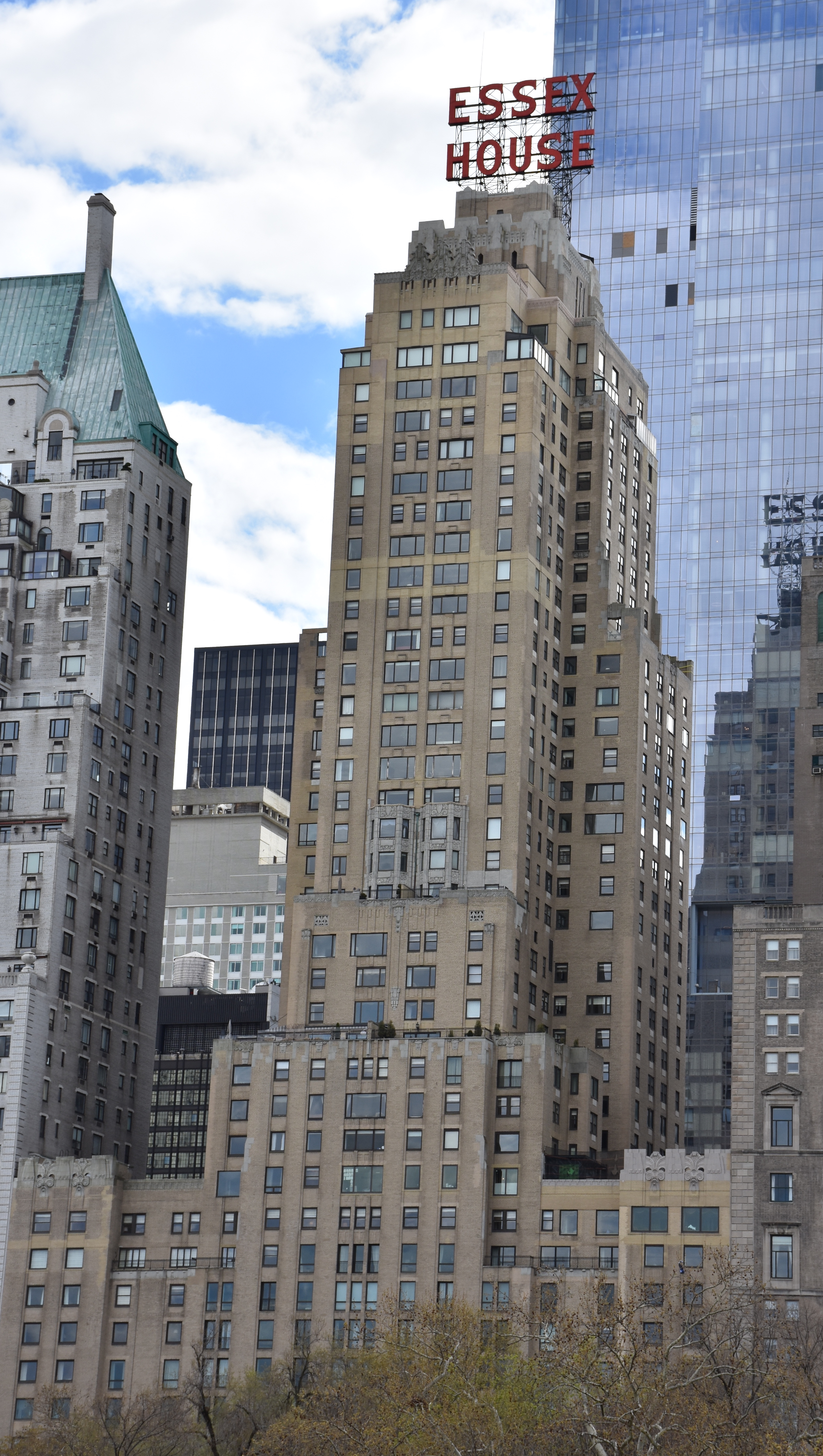 The JW Marriott Essex House in New York City, as seen from Central Park